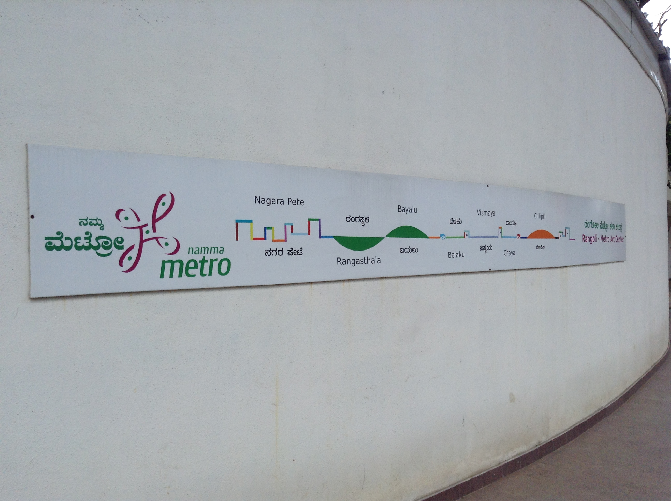 Info board at Namma metro Rangoli Art Center, M.G Road, Bangalore